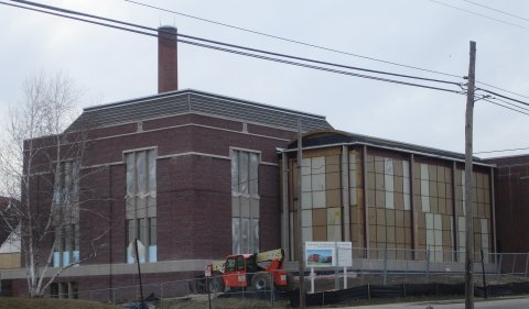 This is the expansion of the Goldthorp science building at the University of Dubuque under construction. I took this photo in March of 2006. Jesster79 00:13, 12 March 2006 (UTC)